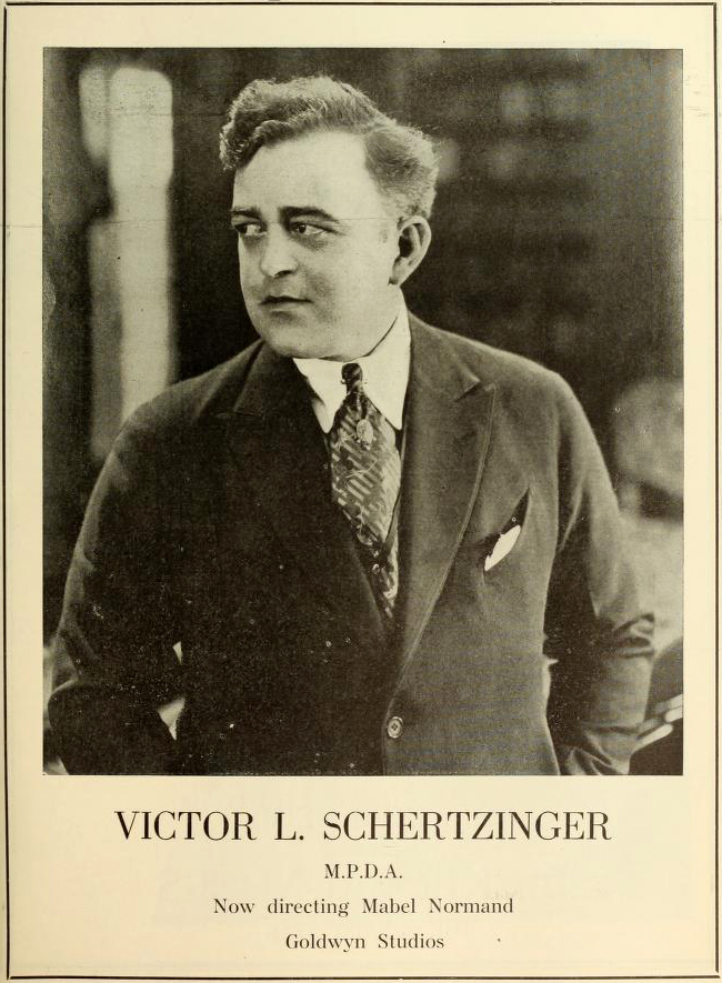 Advertisement in Moving Picture World, May 1919